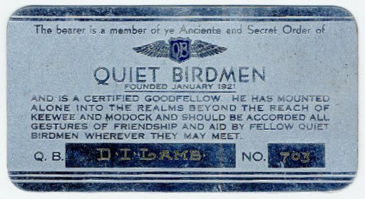 This is a scan of the club membership card of Dean Ivan Lamb, an aviator. The club is the Quiet Birdmen.